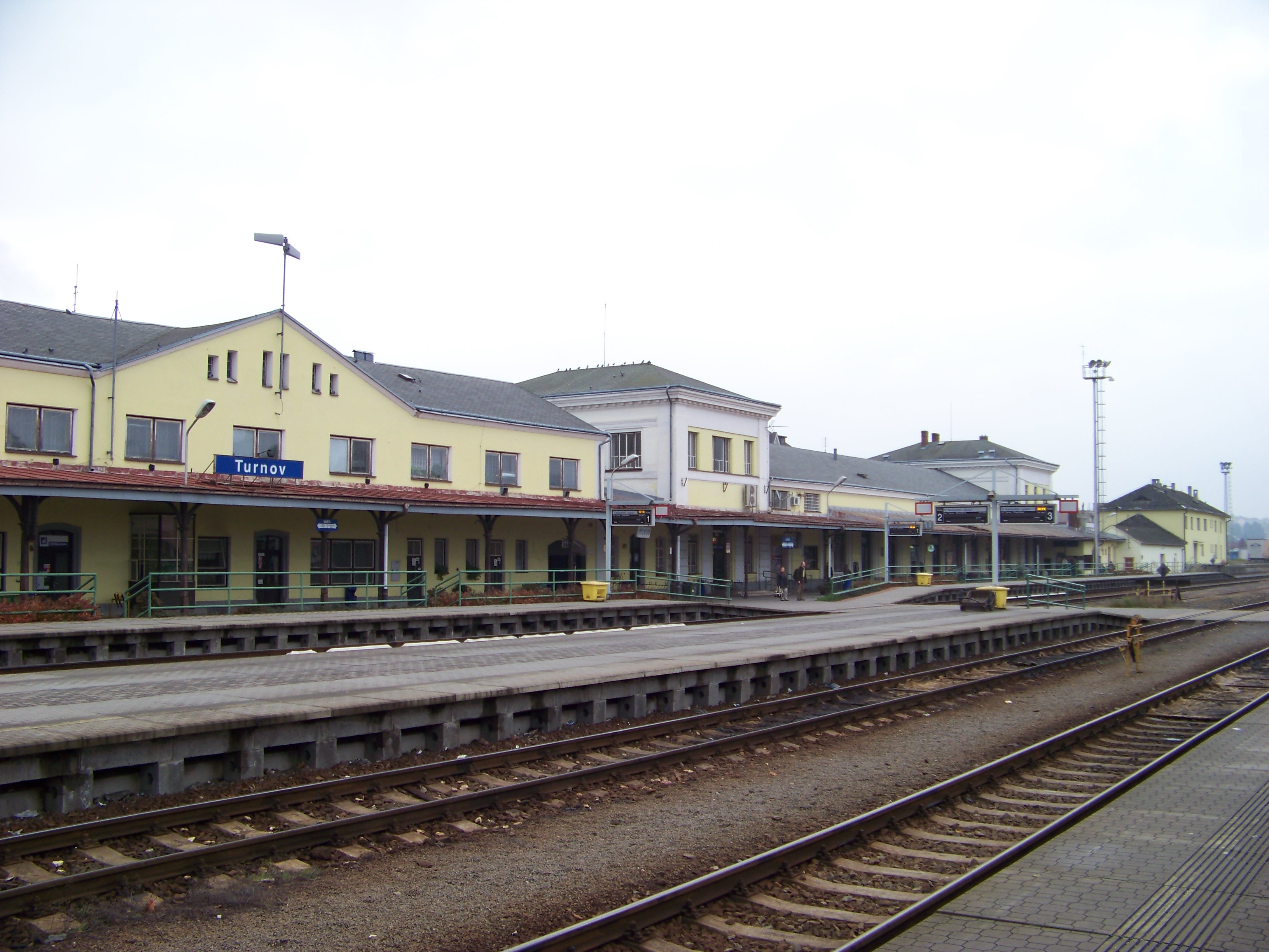 Turnov, Semily District, Liberec Region, the Czech Republic. Train station Turnov.